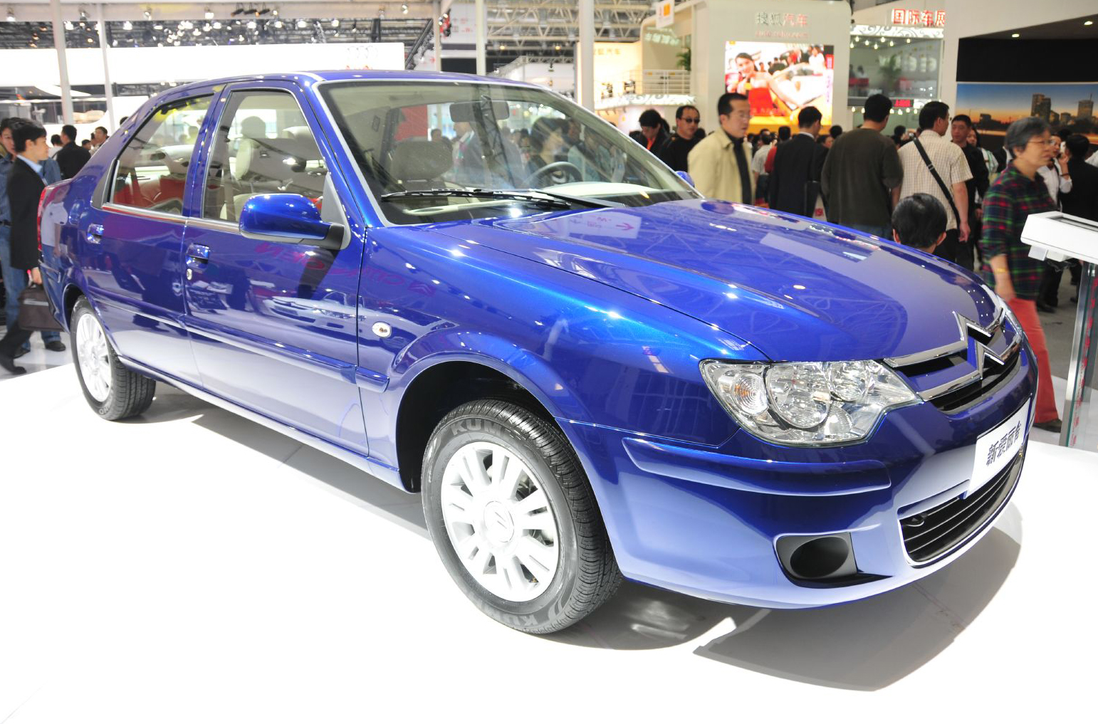 (Dongfeng) Citroën C Elysée at 2008 Beijing Auto Show, when this facelifted version was first introduced